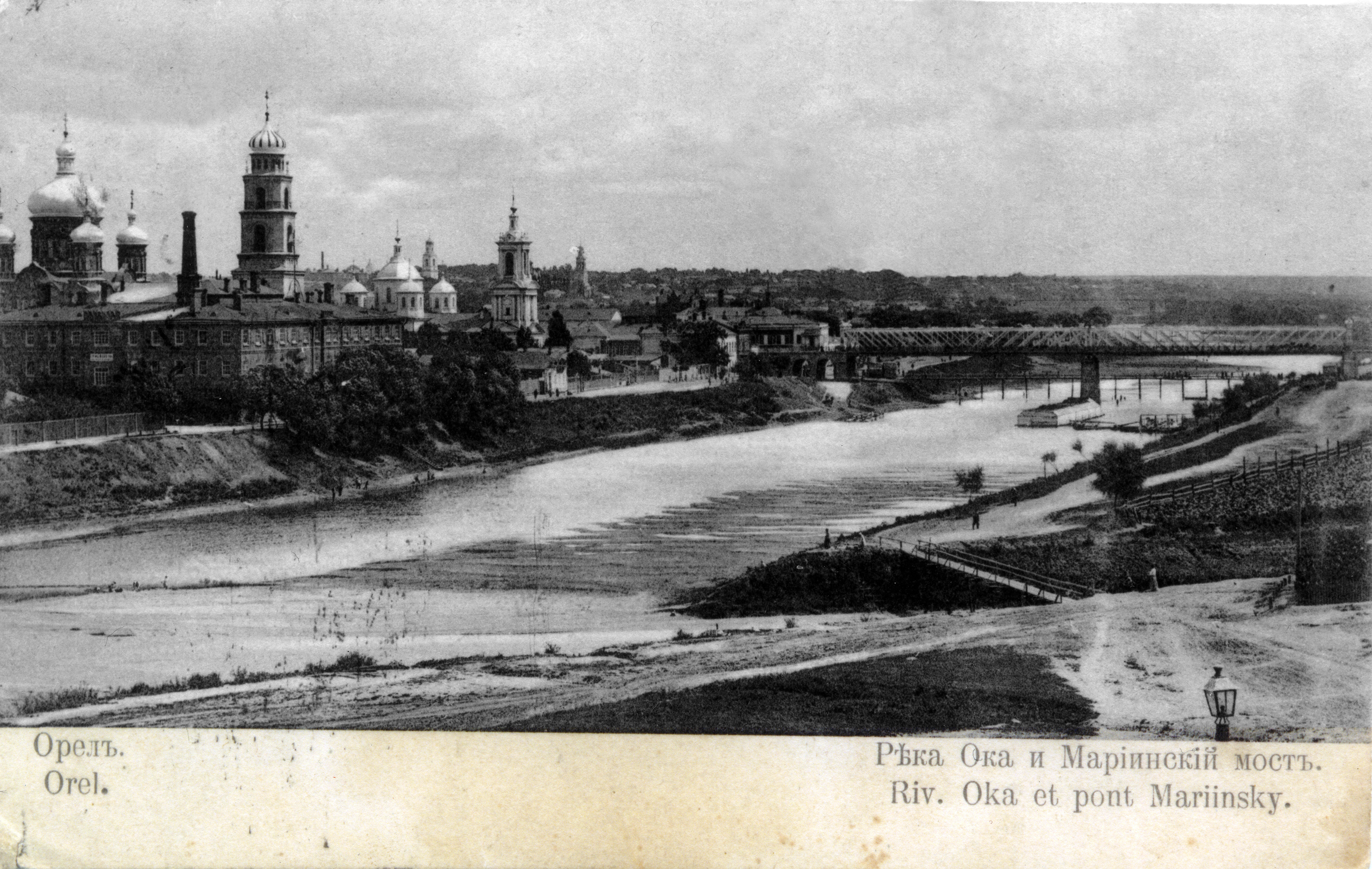 The Oka river and Mariinsky bridge